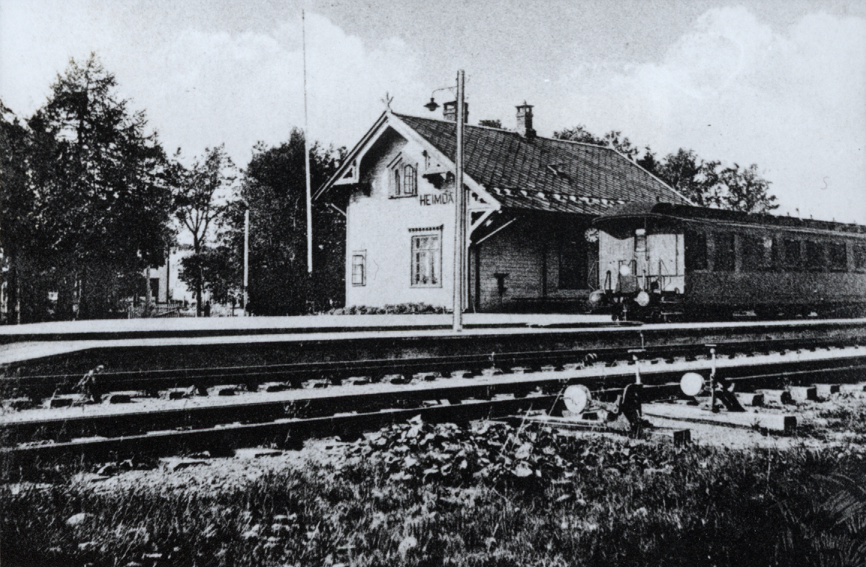 Format: Fotopositiv Dato / Date: Ukjent Fotograf / Photographer: O. Alfarnes Sted / Place: Trondheim Google Maps: Flyfoto 1964: Eier / Owner Institution: Trondheim byarkiv, The Municipal Archives of Trondheim Arkivreferanse / Archive reference: Tor.H45.F9490